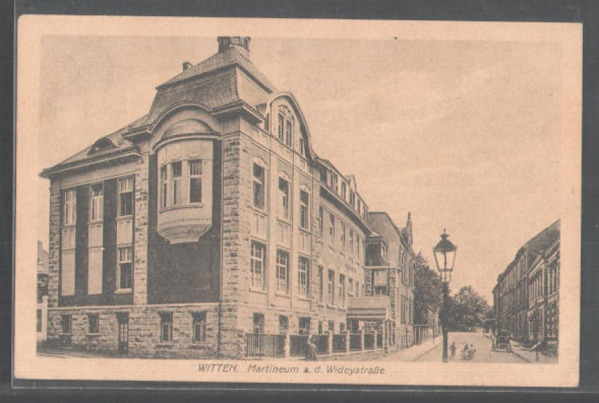 Martineum in Wideystraße, 1920 in Witten, Germany